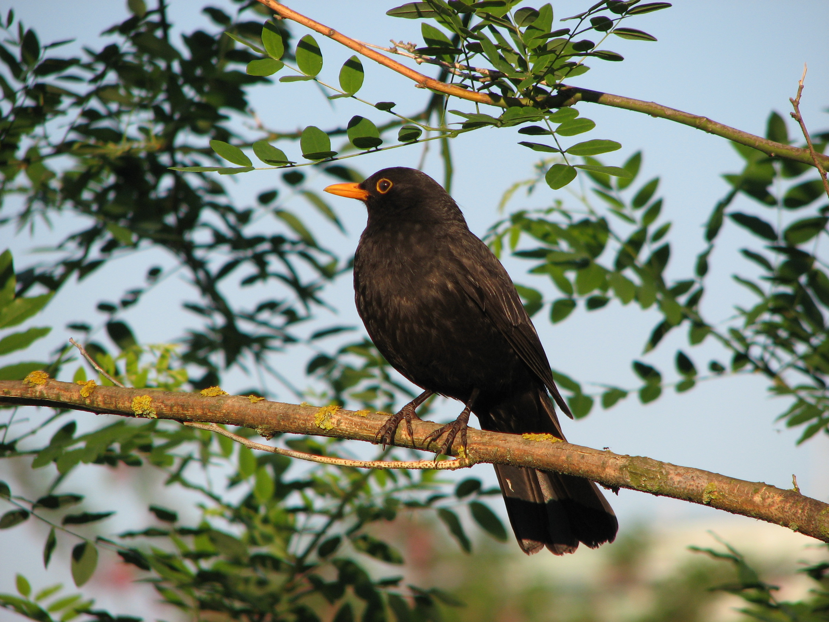 A blackbird in Bystrc